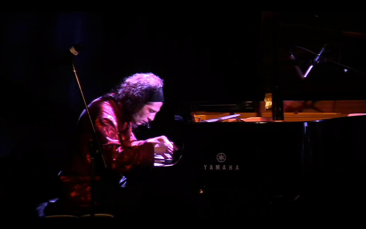 Fernando Otero at (Le) Poisson Rouge in 2012.